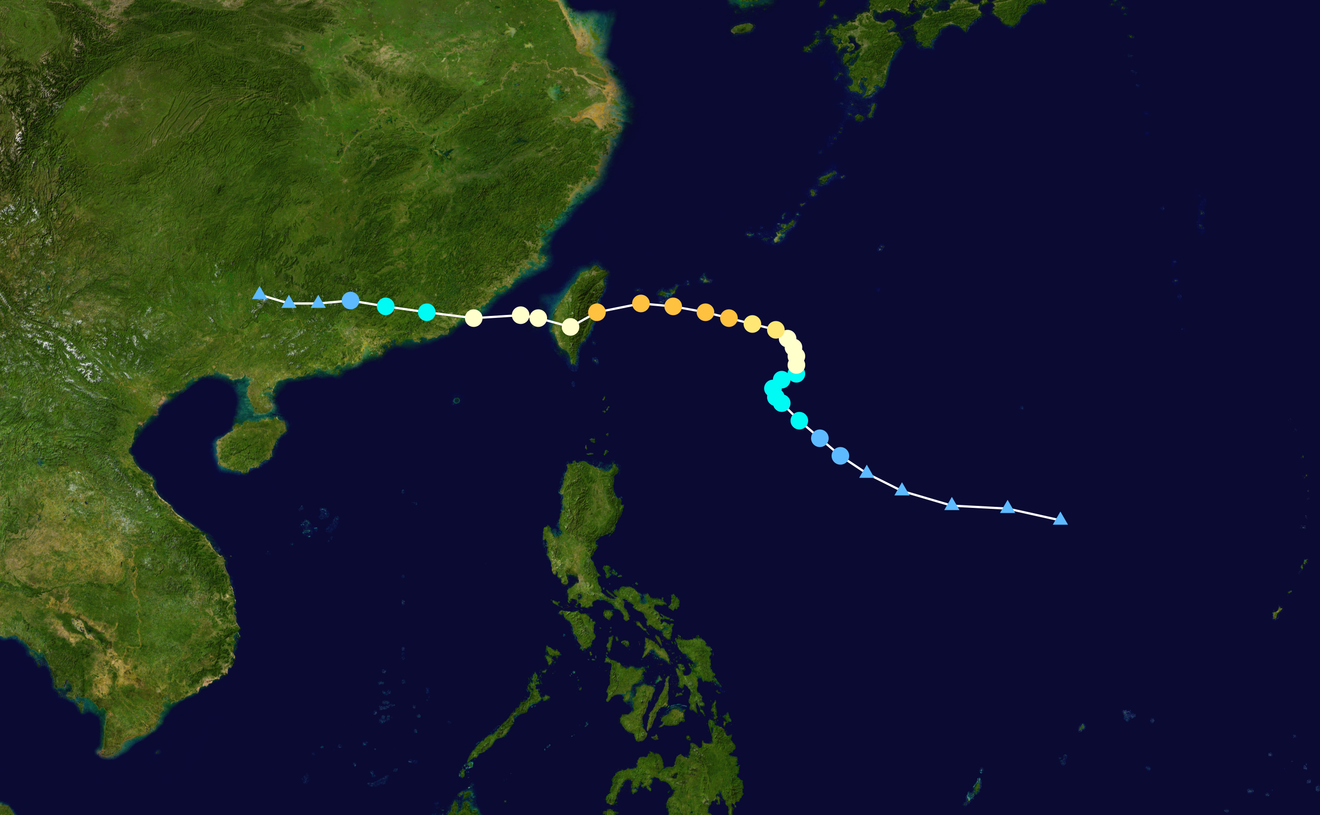 Track map of Typhoon Fanapi of the 2010 Pacific typhoon season. The points show the location of the storm at 6-hour intervals. The colour represents the storm's maximum sustained wind speeds as classified in the Saffir–Simpson scale (see below), and the shape of the data points represent the nature of the storm, according to the legend below. Saffir–Simpson scale Tropical depression≤38 mph≤62 km/h Category 3111–129 mph178–208 km/h Tropical storm39–73 mph63–118 km/h Category 4130–156 mph209–251 km/h Category 174–95 mph119–153 km/h Category 5≥157 mph≥252 km/h Category 296–110 mph154–177 km/h Unknown Storm type Tropical cyclone Subtropical cyclone Extratropical cyclone / Remnant low / Tropical disturbance / Monsoon depression